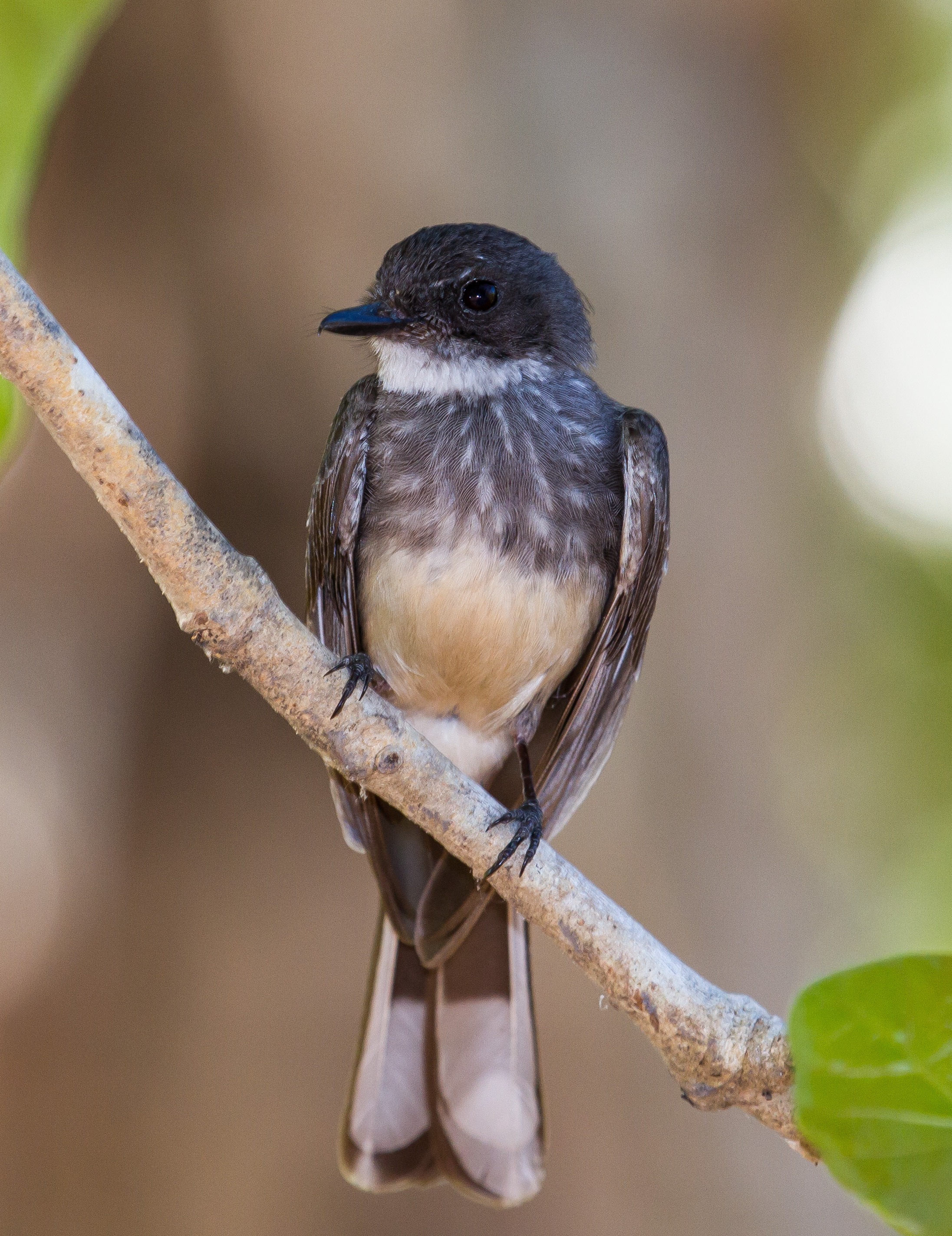 Fogg Dam, Middle Point, Northern Territory, Australia